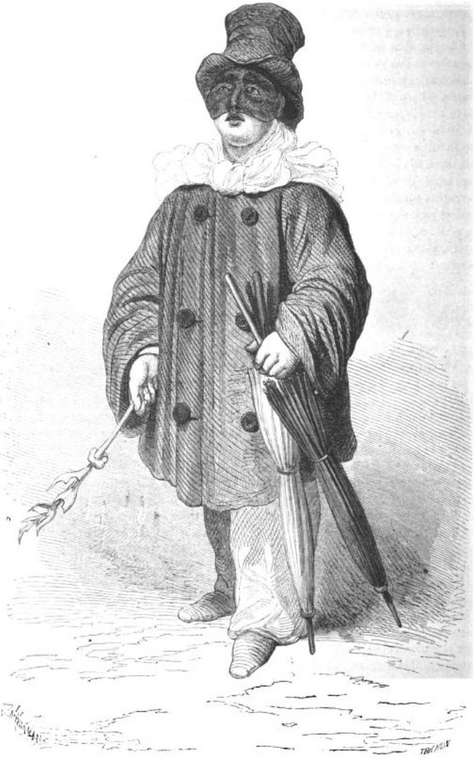 Antonio Petito, Pulcinella of the San Carlino theatre.